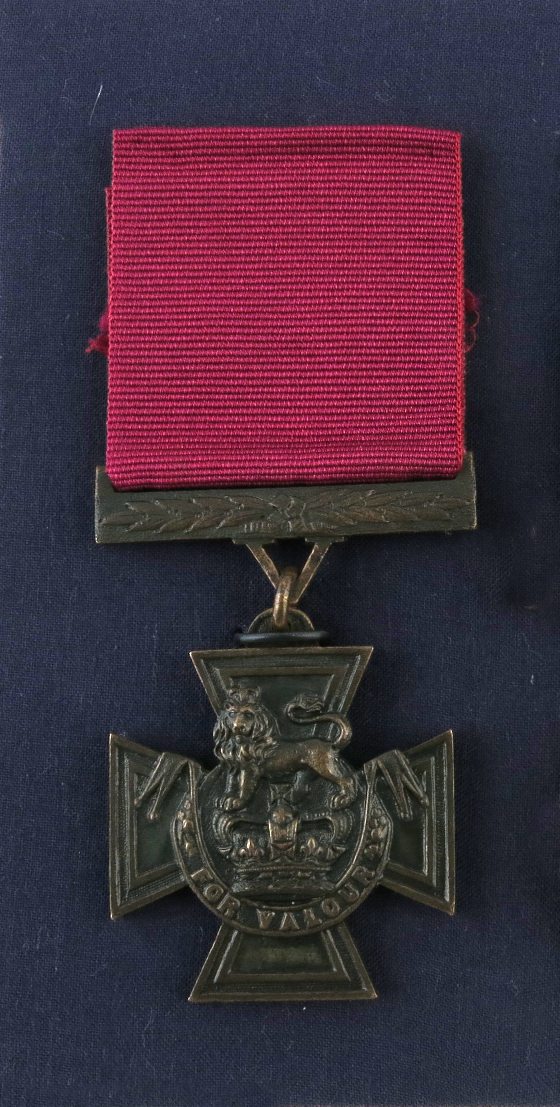 Victoria Cross bestowed upon Major (then Capt.) Charles Heaphy, N.Z. Defence Force, in gallantly assisting a wounded soldier etc.NZ Gazette 15-2-64